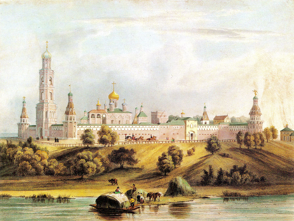 Simonov monastery in Moscow. A painting from "Sights of Moscow" water-color album, 1846